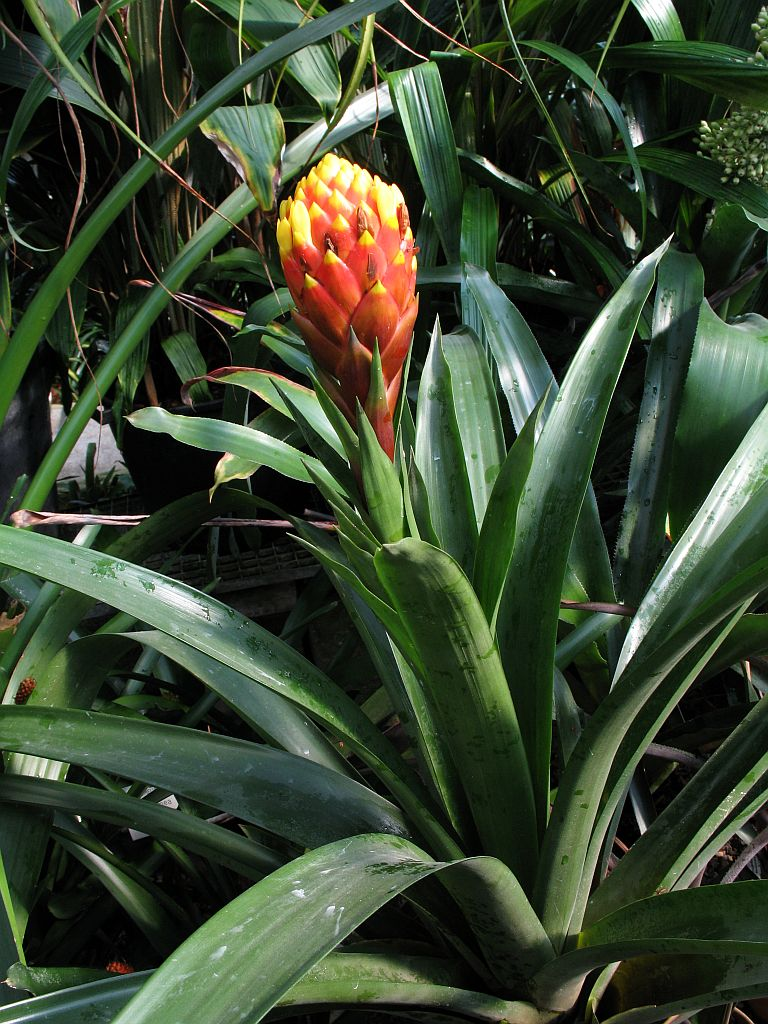 Guzmania conifera, in cultivation at the Botanical Garden of Heidelberg, Germany.